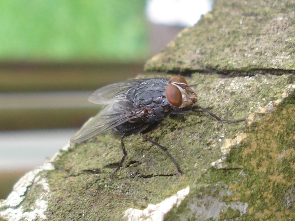 European bluebottle blowfly (Calliphora vicina)